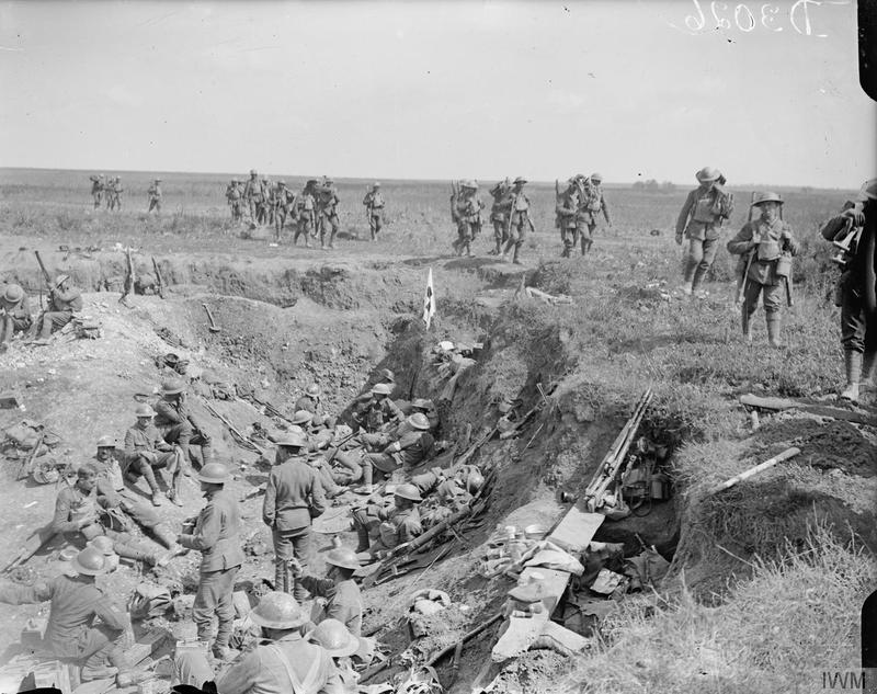 The Hundred Days Offensive, August-november 1918 Battle of Amiens. A regimental aid post and a battle salvage collecting point near Chipilly, 10 August 1918.